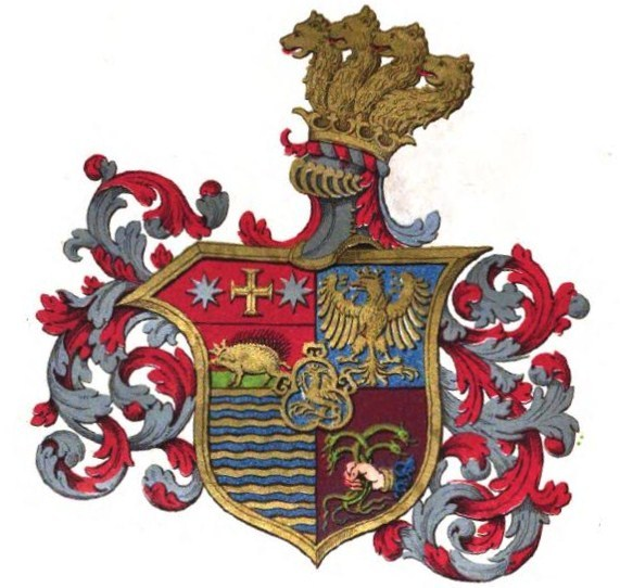 Count Mercurio Bua's coat of arm.